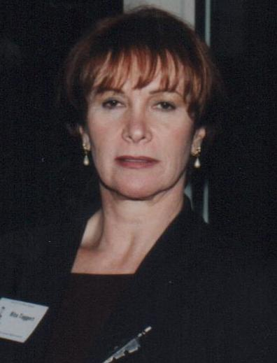 Saul Landau with longtime friend Haskell Wexler, the filmmaker, and Rita Taggart at the 1999 Letelier-Moffitt Awards.